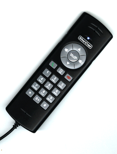 Silvercrest PH1012 VoIP USB Phone